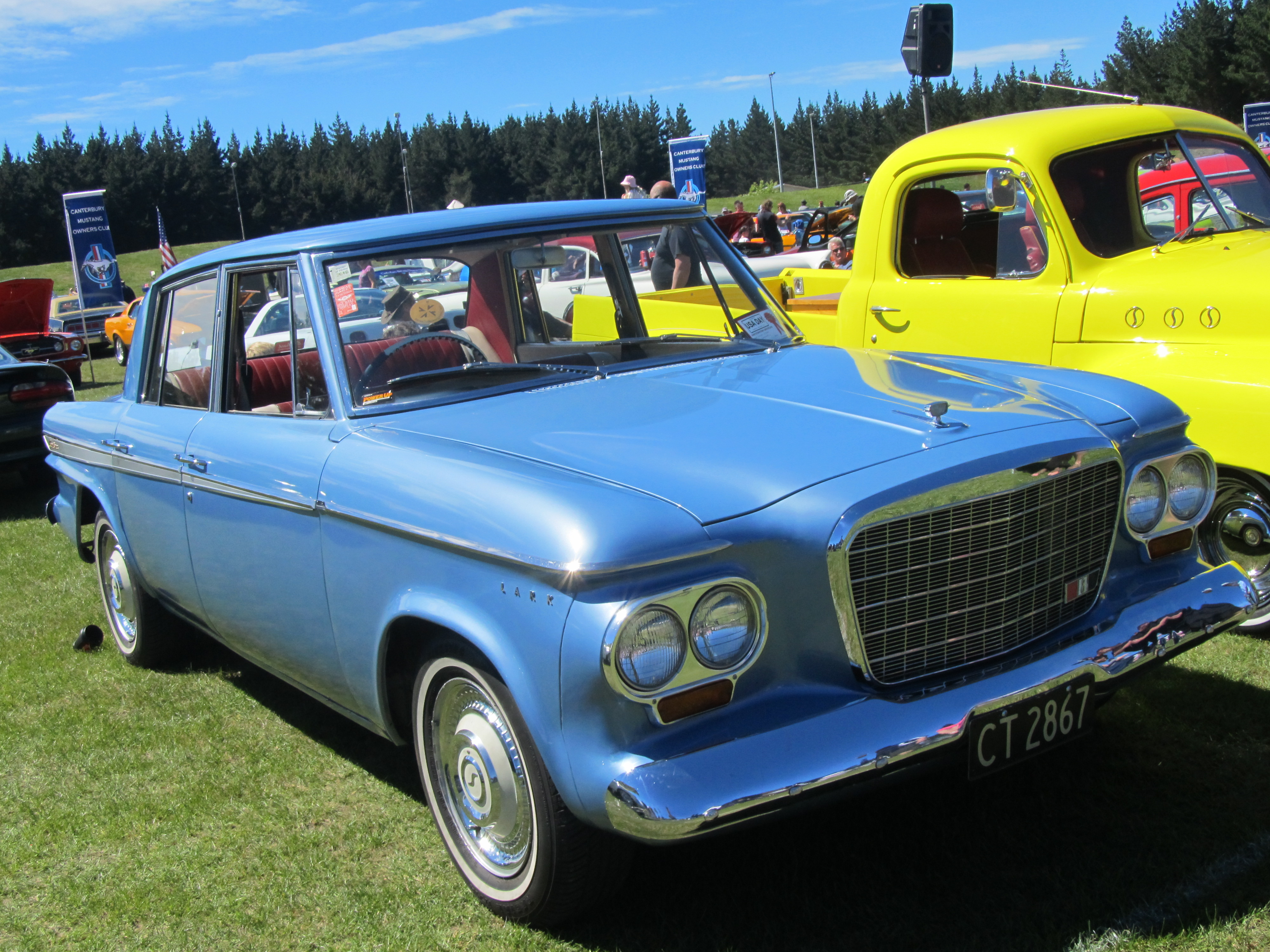 CT2867 Nice to see an honest old American car that hasn't been modified beyond belief, like so many cars at this show. I hate to say it, but there was a better selection in the car park... This ranks as one of my favourite older American cars - it looks very smart and is RHD as well - judging by the original 1960s CT number plate, it may be one of the select few Studebakers sold here new? The seats certainly looked comfortable - given the only real way to get to this show was via motorway, I'd imagine the owner got a good chance to cruise...